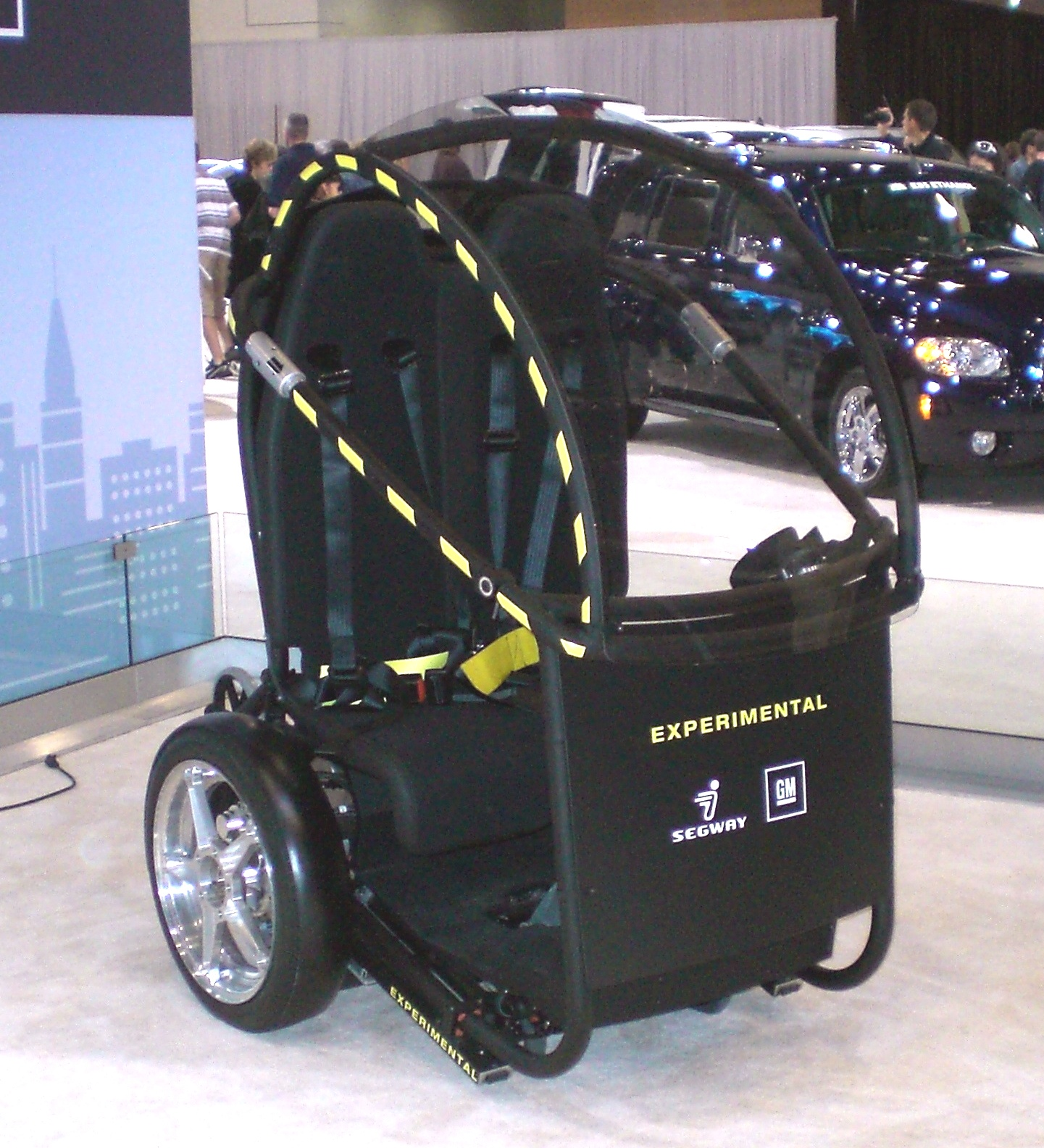 P.U.M.A. by Segway and GM.